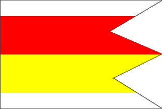 Stankovce municipality flag